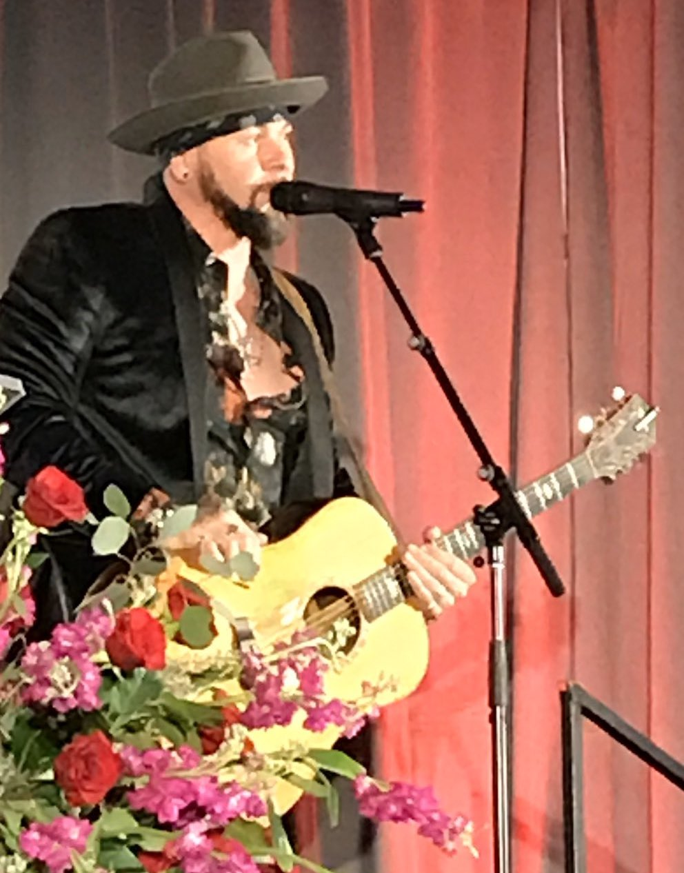 Arkansas singer-songwriter, @JaredBlakeMusic, brought the house down at Saturday's Wolfe Street Foundation event! Jared, who competed on @NBCTheVoice, shared his music & story about overcoming addiction. Last week, he spoke w/ students at Central & Joe T. Robinson High.